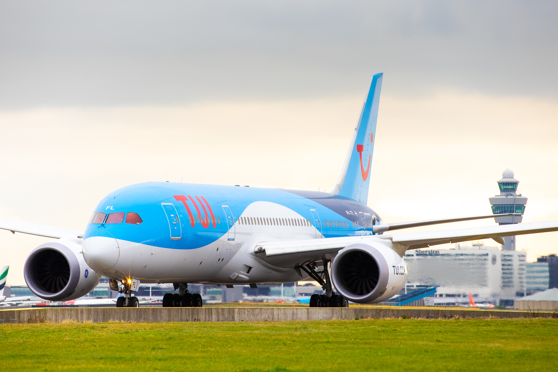 Een Boeing 787-8 van het Nederlandse TUI Fly op Schiphol. Dit vliegtuig was onderweg naar de polderbaan.